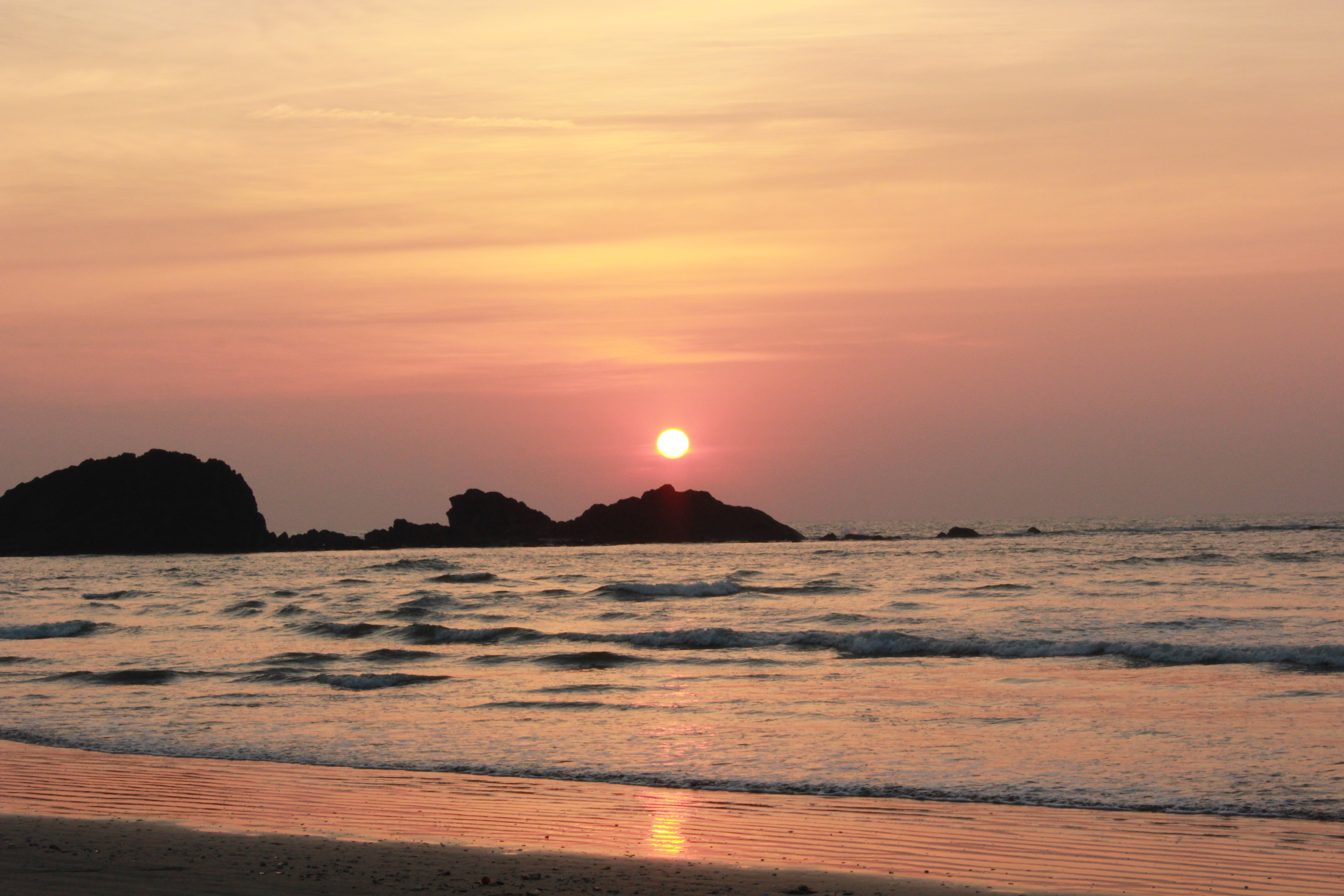 Muzhappilangad Drive-In Beach sunset